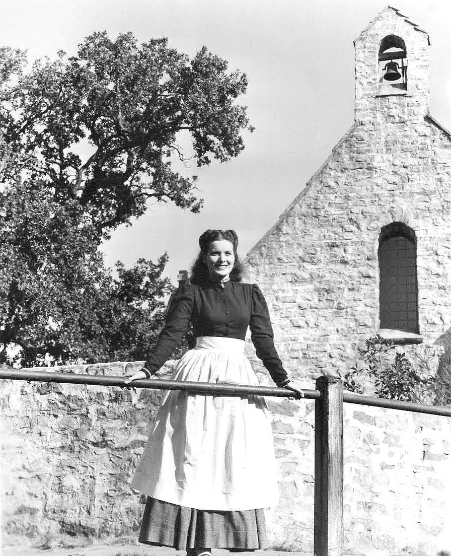 Photo from the 1941 film How Green Was My Valley with Maureen O’Hara.